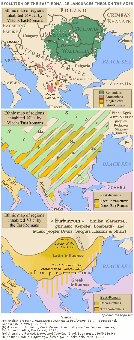 The evolution of the Eastern Romance languages and of the Wallachian territories from 6th century to the 16th century AD, since Atlasul istorico-geografic al Academiei Române, Bucharest 1995, ISBN 973-27-0500-0; Alexandru Filipașcu, Istoria Maramureșului, Bucharest 1940, 270 p.; Neagu Djuvara, Cum s-a născut poporul român?, Humaniatas, Bucharest, 2001, ISBN 973-50-0181-0, Dinu Giurescu, Istoria ilustrată a Românilor, Sport-Turism, Bucharest 1981, pp. 72-121; G.I. Brătianu, Cercetări asupra Vicinei și Cetății-Albe, Univ. din Iași, 1935; Florin Constantiniu et al., Istoria lumii în date, ed. Enciclopedică, Bucharest 1971; Petre Gâștescu, Romulus Știucă: Delta Dunării, CD-Press 2008, ISBN 978-973-1760-98-9 Invalid ISBN; Nicolae Iorga, Istoria românilor, Partea II, Vol. 2, Oameni ai pământului (before year 1000), Bucharest, 1936, 352 p. and Vol. 3, Ctitorii, Bucharest, 1937, 358 p.; Thede Kahl, Rumänien: Raum und Bevölkerung, Geschichte und Gesichtsbilder, Kultur, Gesellschaft und Politik heute, Wirtschaft, Recht und Verfassung, Historische Regionen; Constantin-Mircea Ștefănescu, Nouvelles contributions à l’étude de la formation et de l’évolution du delta du Danube, Paris, Bibliothèque nationale, 1981; Gheorghe Postică, Civilizația veche românească din Moldova, Știința, Chișinău 1995; R. Rohlfs, article Valachie, Valaque in : Dictionnaire étymologique PUF, Paris, 1950 ; Alexandru Rosetti : Histoire de la langue roumaine des origines au XVII-e siècle, Editura pentru Literatură, Bucharest 1968; Kristian Sanfeld-Jensen, Linguistique balkanique, Klincksieck, Paris 1930, et George Vâlsan: Opere Alese (dir.: Tiberiu Morariu), Ed. științifică, Bucharest 1971.